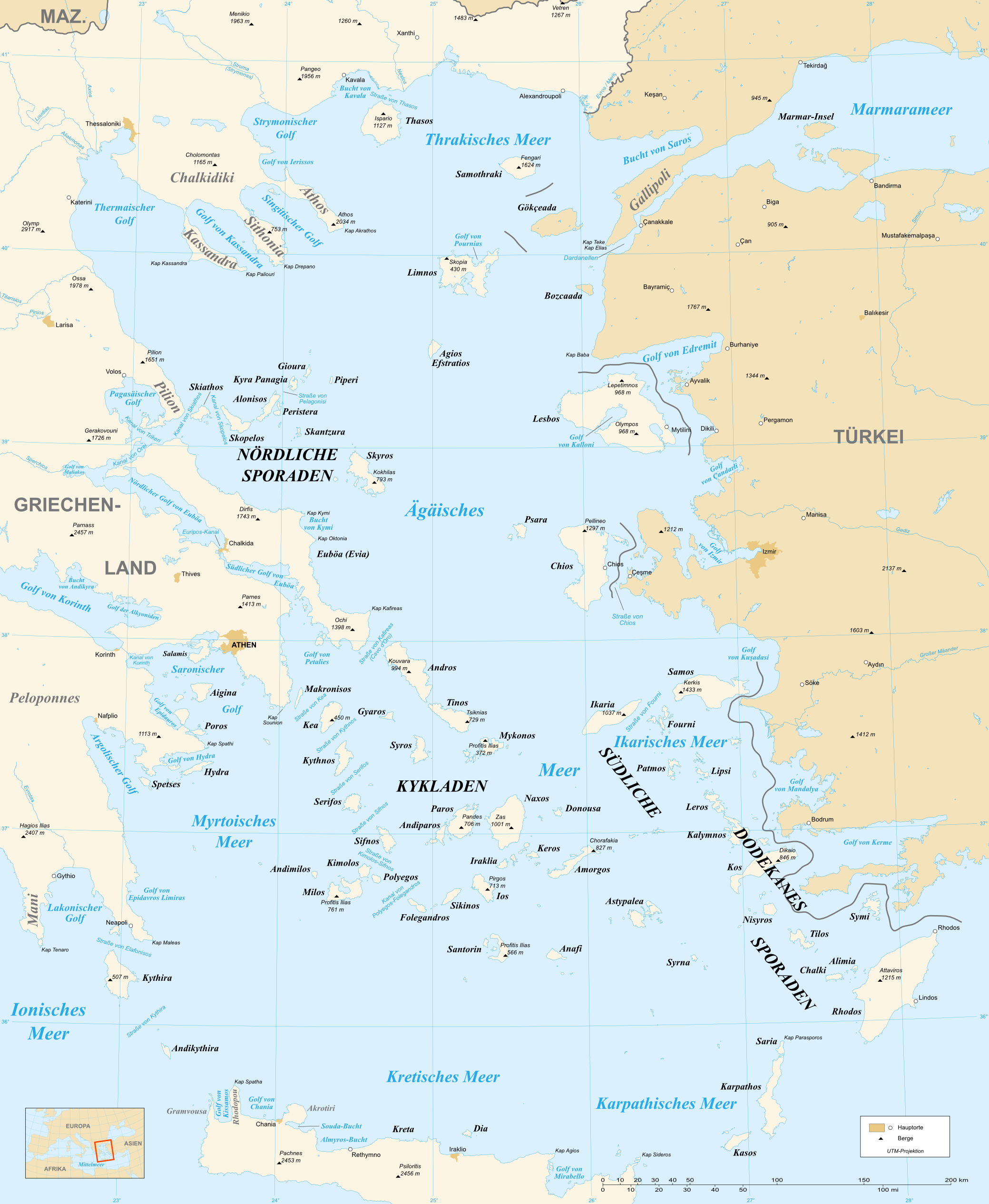 Map in German of the Aegean Sea, Mediterranean Sea, with Greece as highlighted country (png-version)